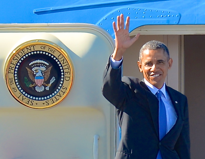 President Barack Obama leaves Sweden September 5, 2013 after a one day stop-over on his way to the G20 summit in Saint Petersburg.